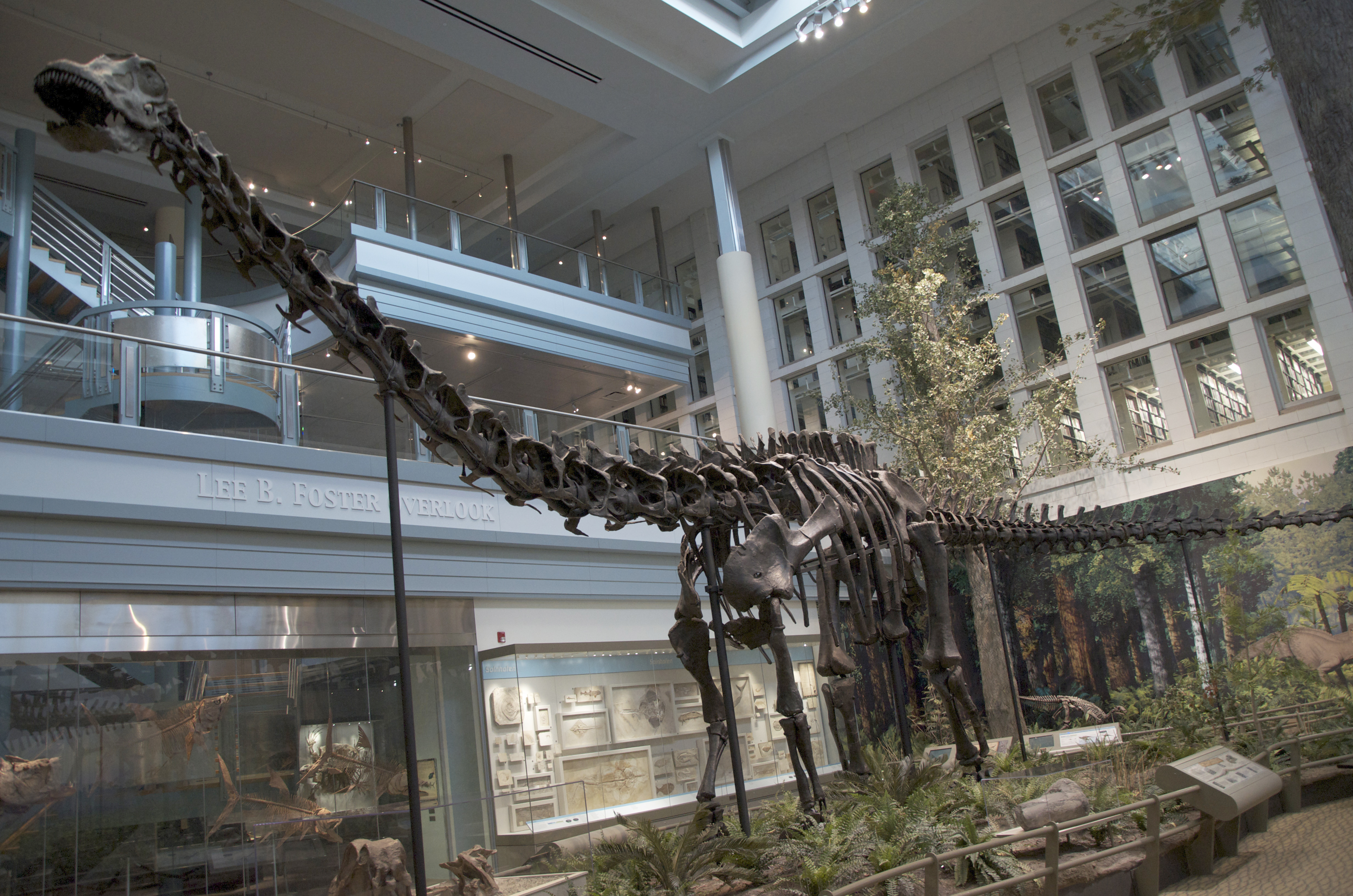 Diplodocus skeletal mount at the Carnegie Museum of Natural History, Pittsburgh